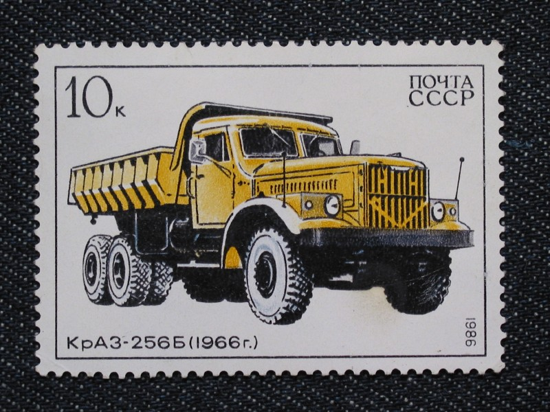 Stamp of USSR